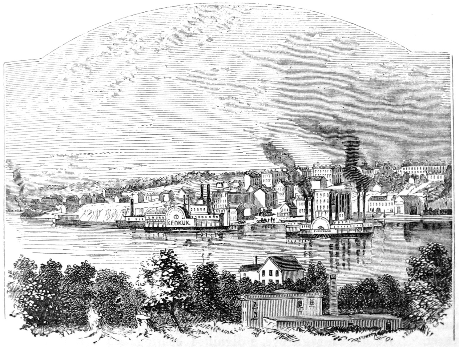 Keokuk engraving